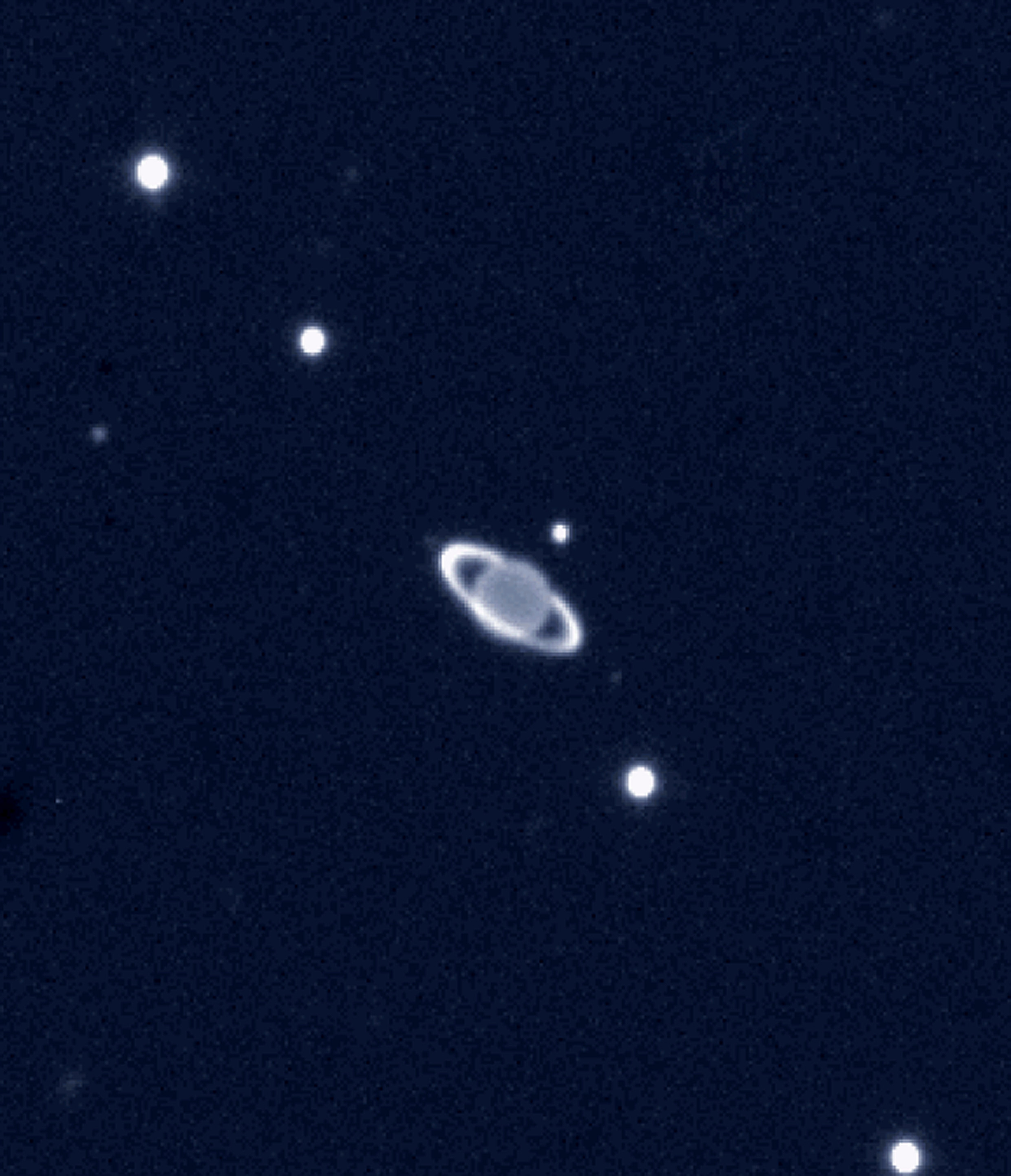 Near-infrared view of the giant planet Uranus with rings and some of its moons, obtained on November 19, 2002, with the ISAAC multi-mode instrument on the 8.2-m VLT ANTU telescope at the ESO Paranal Observatory (Chile). The photo shows Uranus surrounded by its rings and some of the moons, as they appear on a near-infrared image that was obtained in the Ks-band (at wavelength 2.2 _m) with the ISAAC multi-mode instrument on the 8.2-m VLT ANTU telescope. On this VLT near-infrared picture, the contrast between the rings and the planet is strongly enhanced. At the particular wavelength at which this observation was made, the infalling sunlight is almost completely absorbed by gaseous methane present in the planetary atmosphere and the disc of Uranus therefore appears unsually dark. At the same time, the icy material in the rings reflects the sunlight and appears comparatively bright. Uranus is unique among the planets of the solar system in having a tilted rotation axis that is close to the main solar system plane in which most planets move (the "Ecliptic"). At the time of the Voyager-2 encounter (1986), the southern pole was oriented toward the Earth. Sixteen years later (corresponding to about one-fifth of Uranus' 84-year period of revolution), the Uranian ring system were seen at an angle that is comparable to the one under which we see Saturn when its ring system is most "open". Seven of the moons of Uranus can be identified. Of these, Titania and Oberon are the brightest (visual magnitude about 14). The much smaller and fainter Puck and Portia have visual magnitude about 21 and are barely visible in the photo.